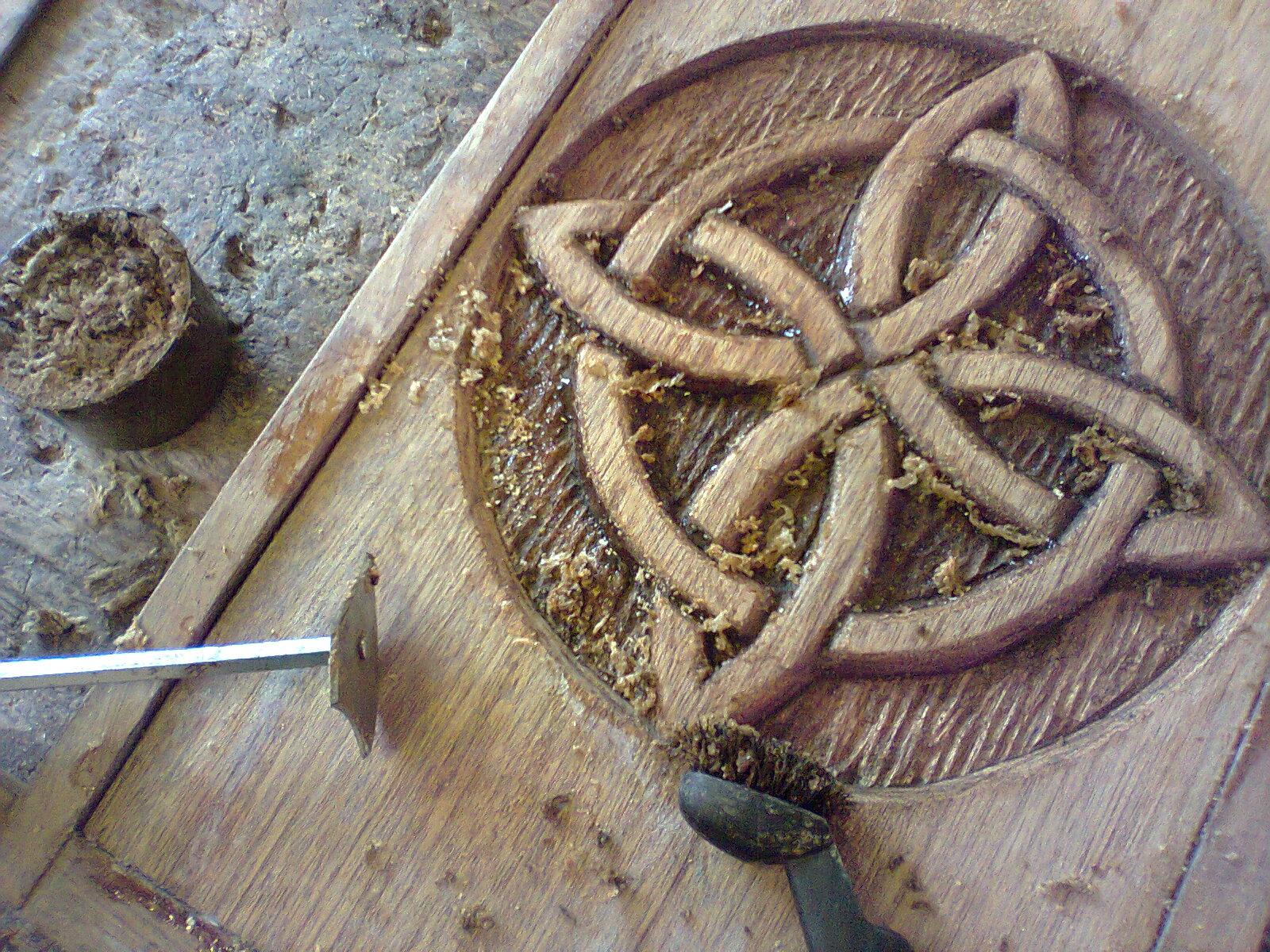 To restore wooden furniture you start by taking it apart and removing the varnish